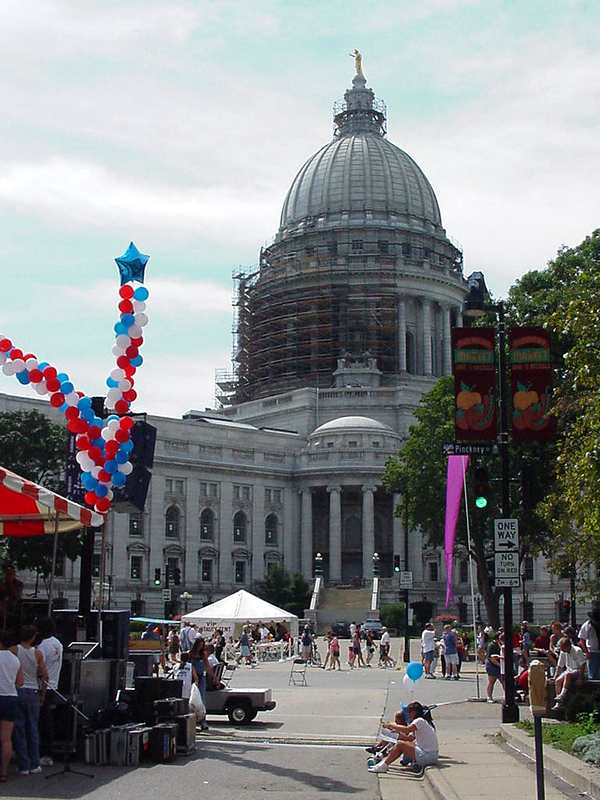 Wisconsin State Capitol Taste of Madison - 2000-09-03 They where having a "Taste of Madison" festival while I was there. Incredible. Must have been 150 food venders. I ate so much I thought I would pop.